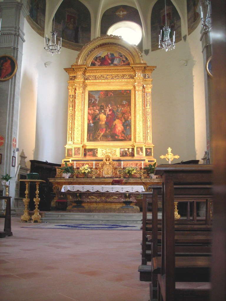 Church of Madonna dei Miracoli, Castel Rigone, Passignano sul Trasimeno, Perugia, Umbria, Italy